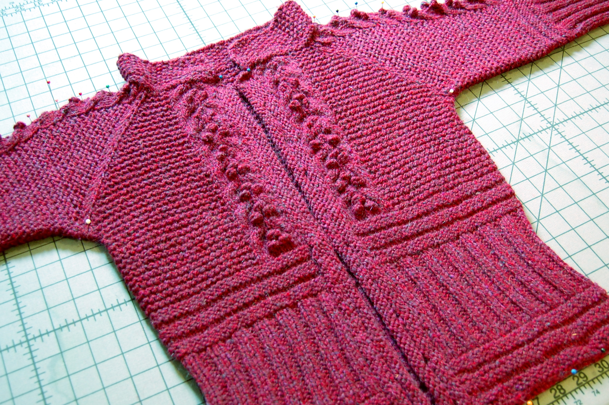 Bobbles and welting on the front of a hand-knitted jacket